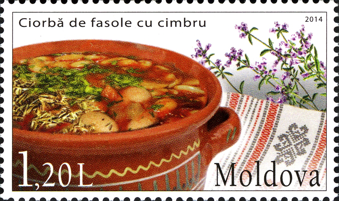 Stamps of Moldova, 2014